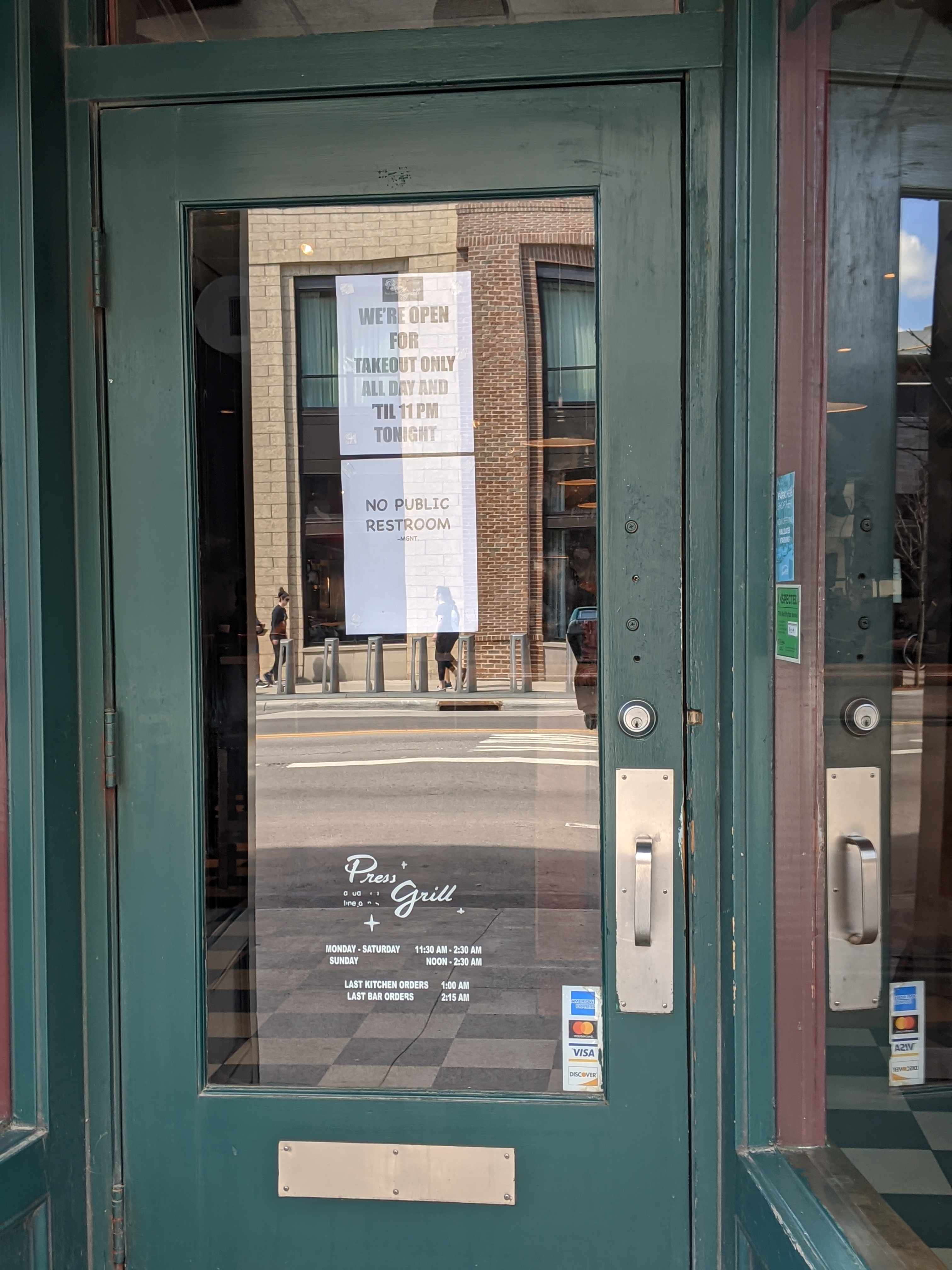 COVID closure in Columbus, Ohio.